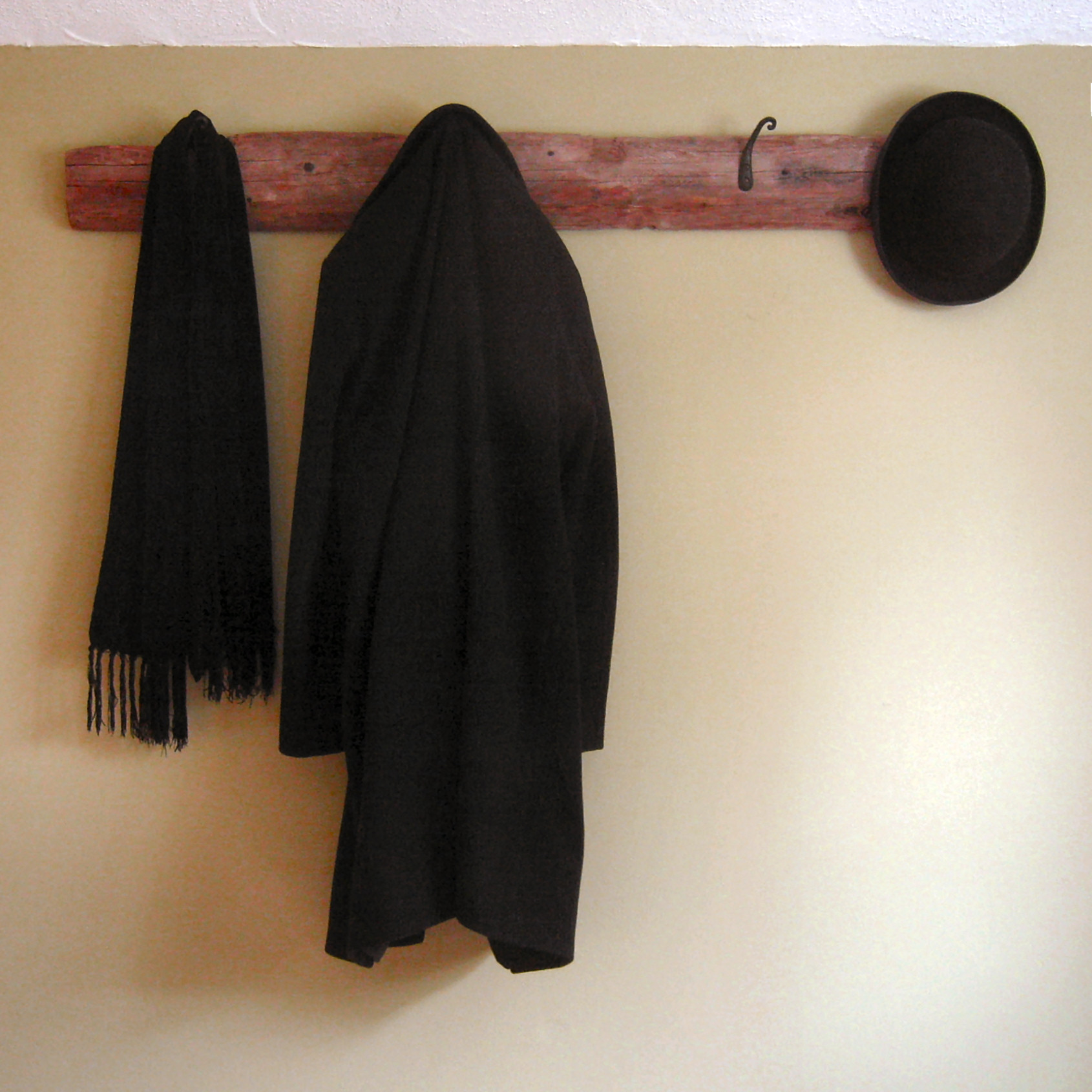 this is a place to hang my hat, my coat, my scarf.